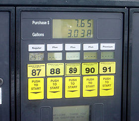 added photo